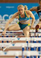 Sally Pearson during 2010 Memorial Van Damme